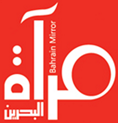 Bahrain Mirror logo